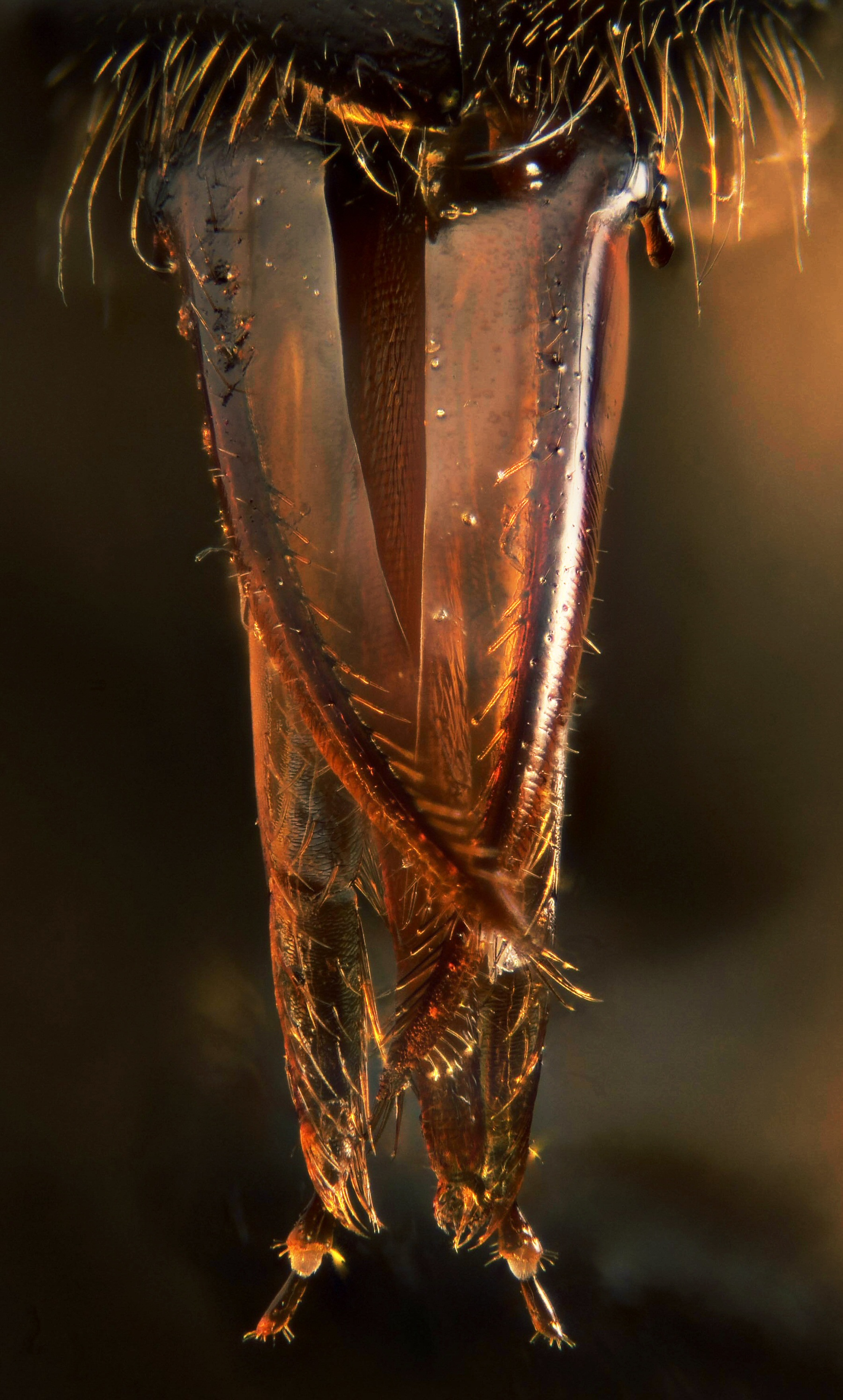 Focus stacked image of European Honeybee (Apis mellifera) mouthparts, showing labium and maxillae. These mouthparts perform the 'lapping' of liquid food, and are similar to the mouthparts in other bees, ants and their relatives.